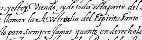 Posesion en nombre de Su Magestad (Archivo del Museo Naval, Madrid, MS 951) Page 3